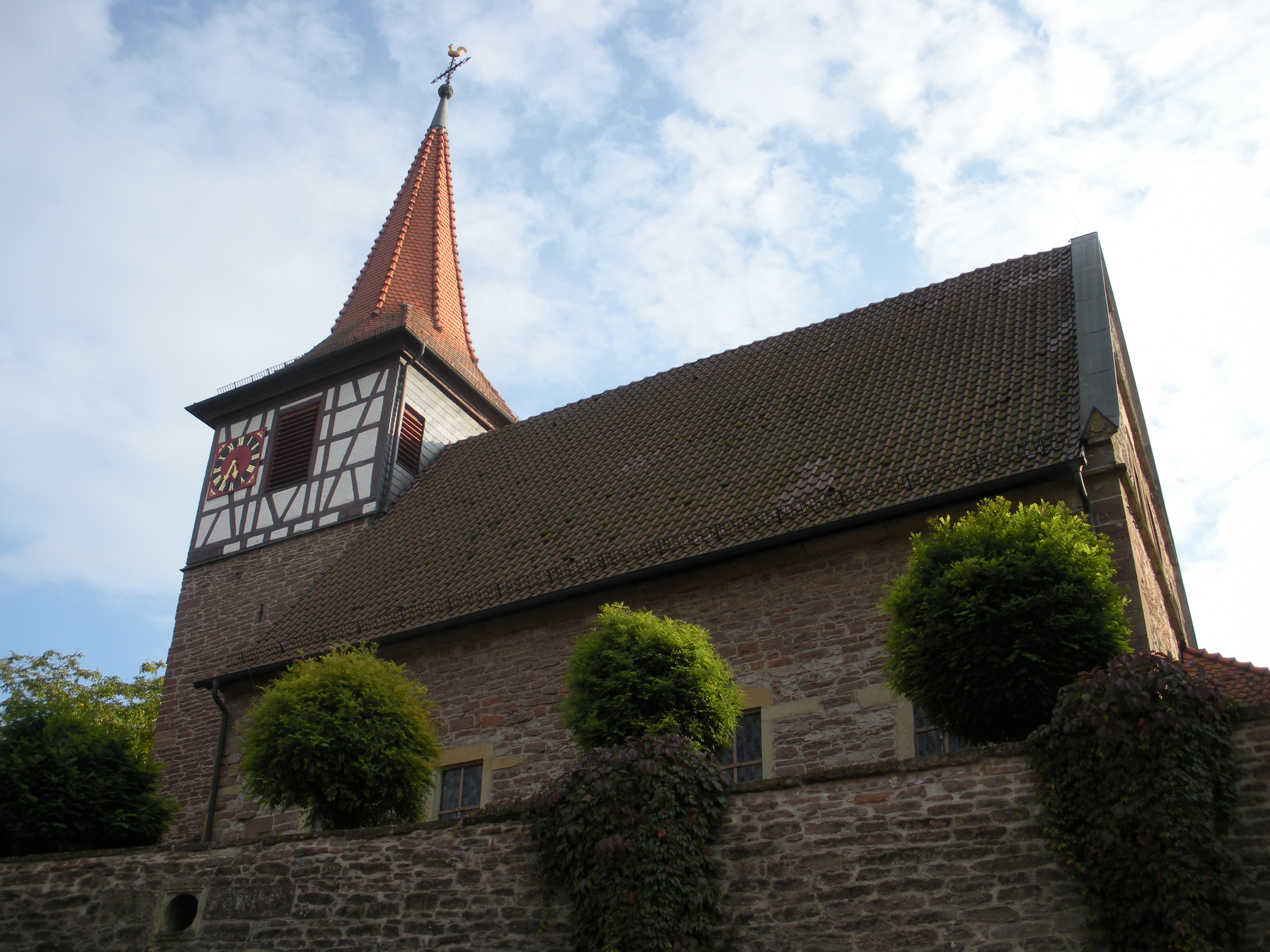 Protestant Church in Illingen-Schützingen